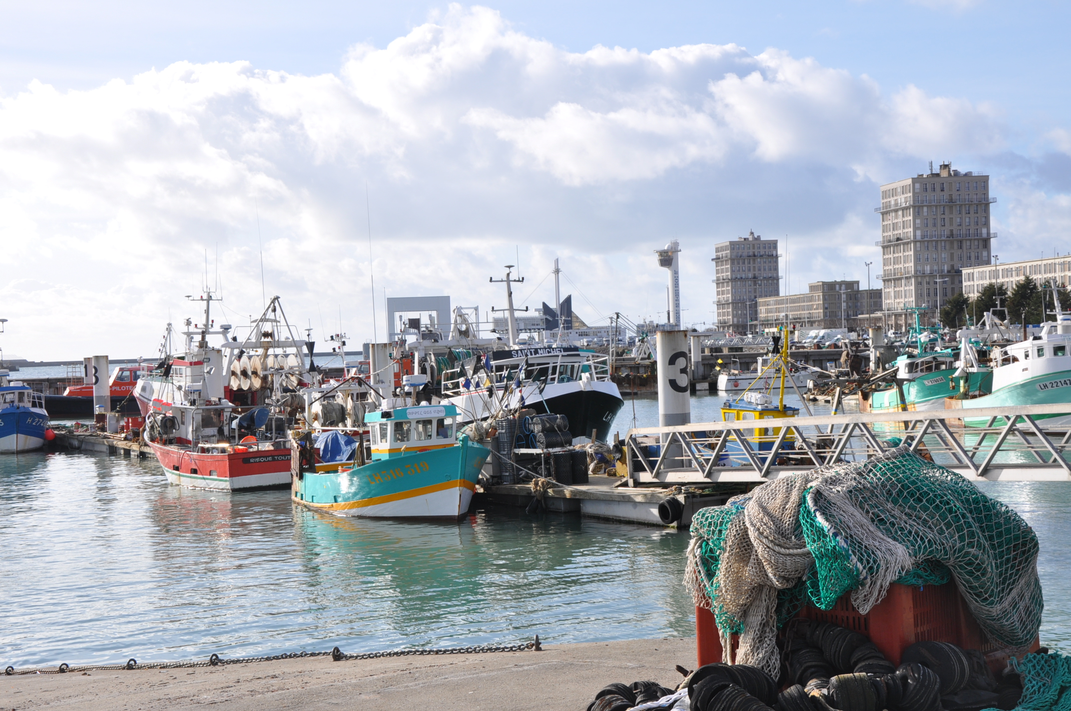 Le Havre (Normandy, France): fishing boats, fishing nets, buildings and semaphore.